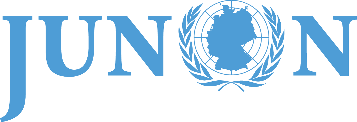 Official logo of the United Nations Youth Association Germany